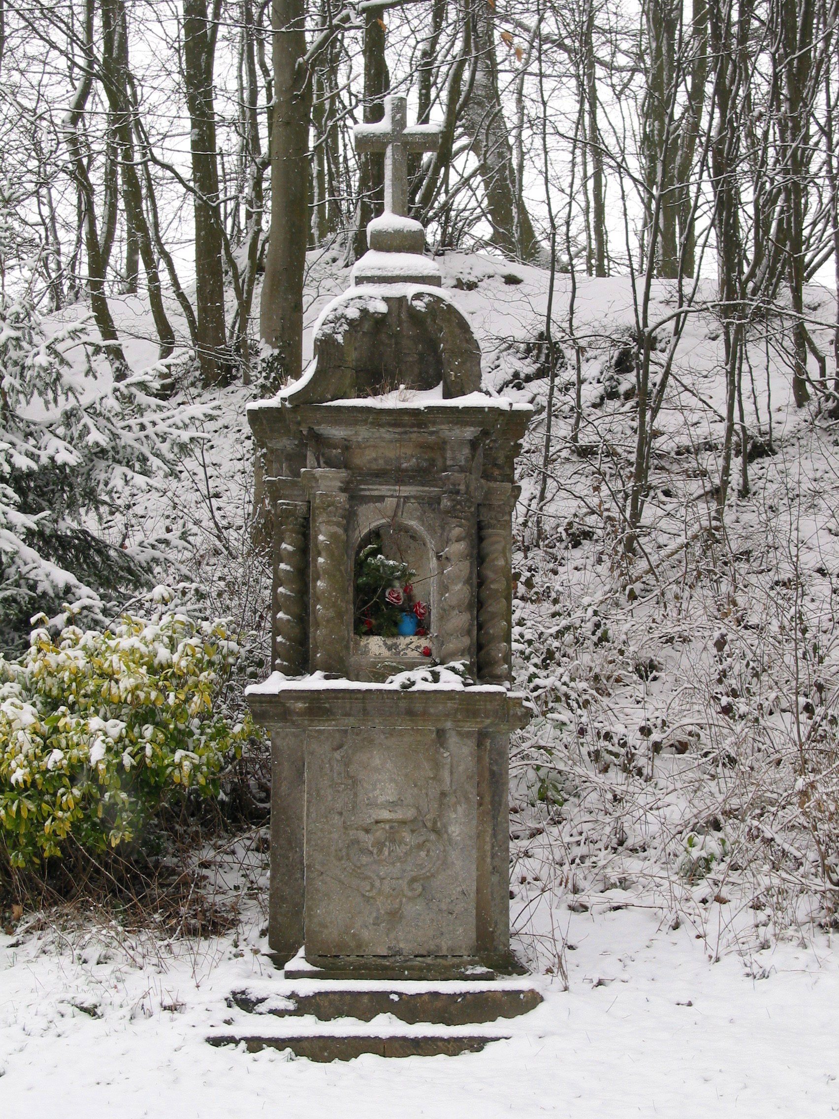 Gottignies (Belgium), "Rue de la Renardise" - The Saint Joseph chapel (1702).